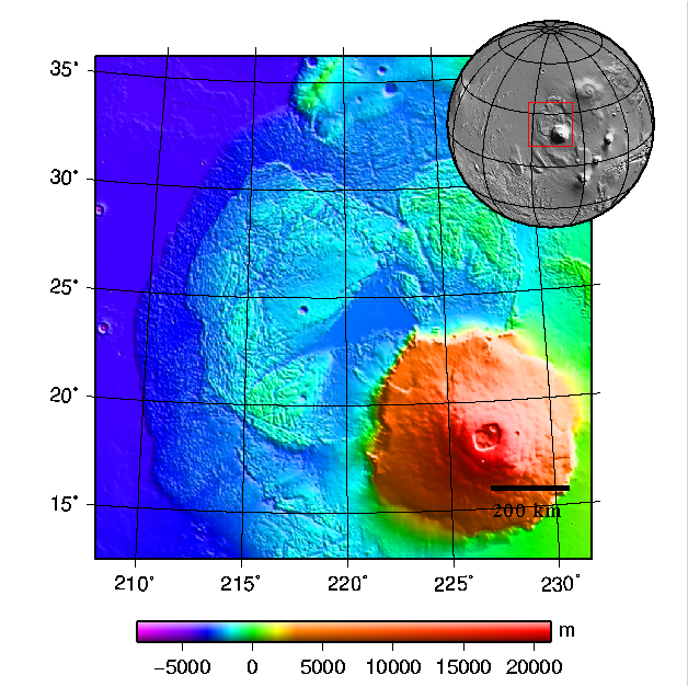 Topography map of Lycus Sulci on Mars